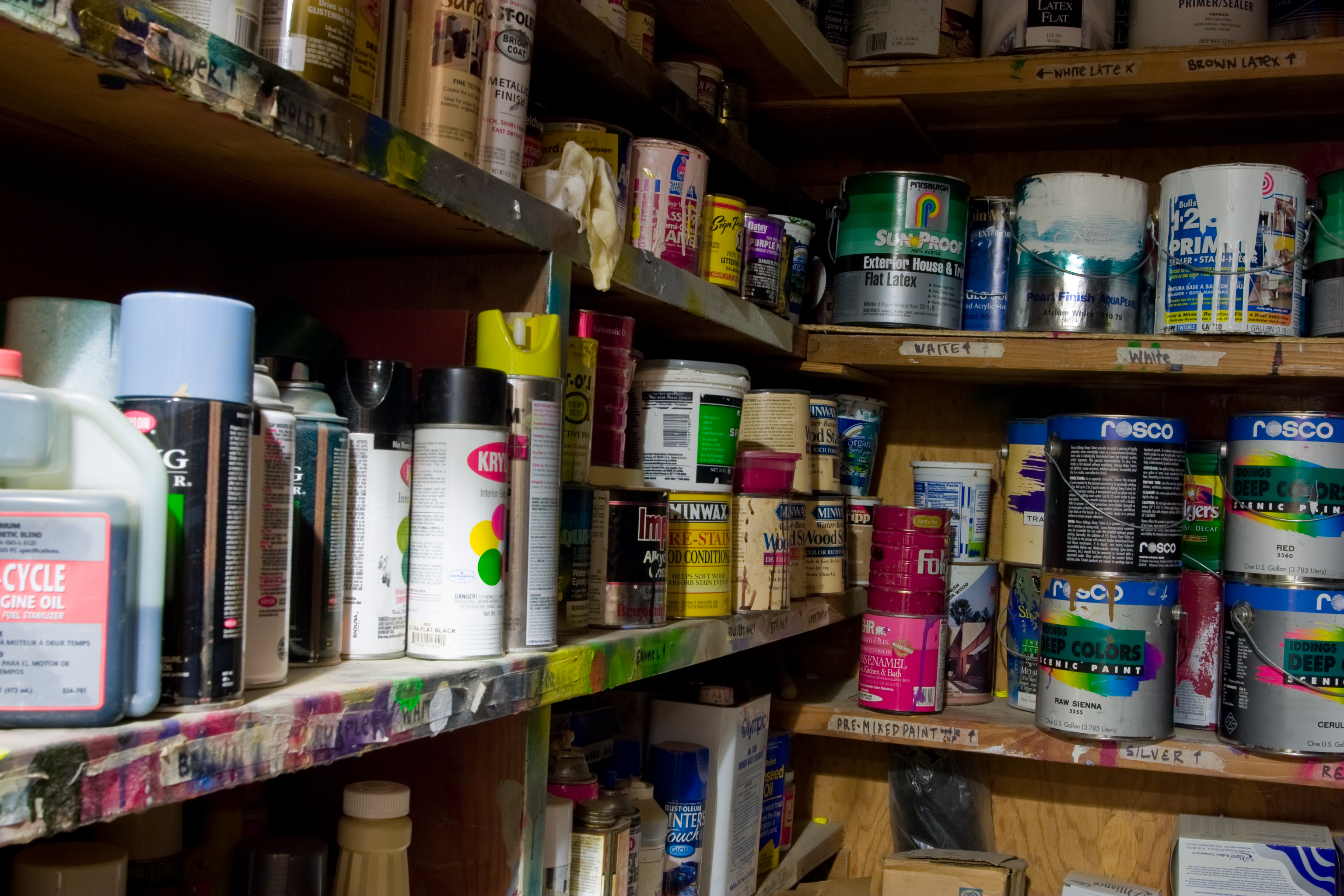 A collection of cans of paint and other related materials.